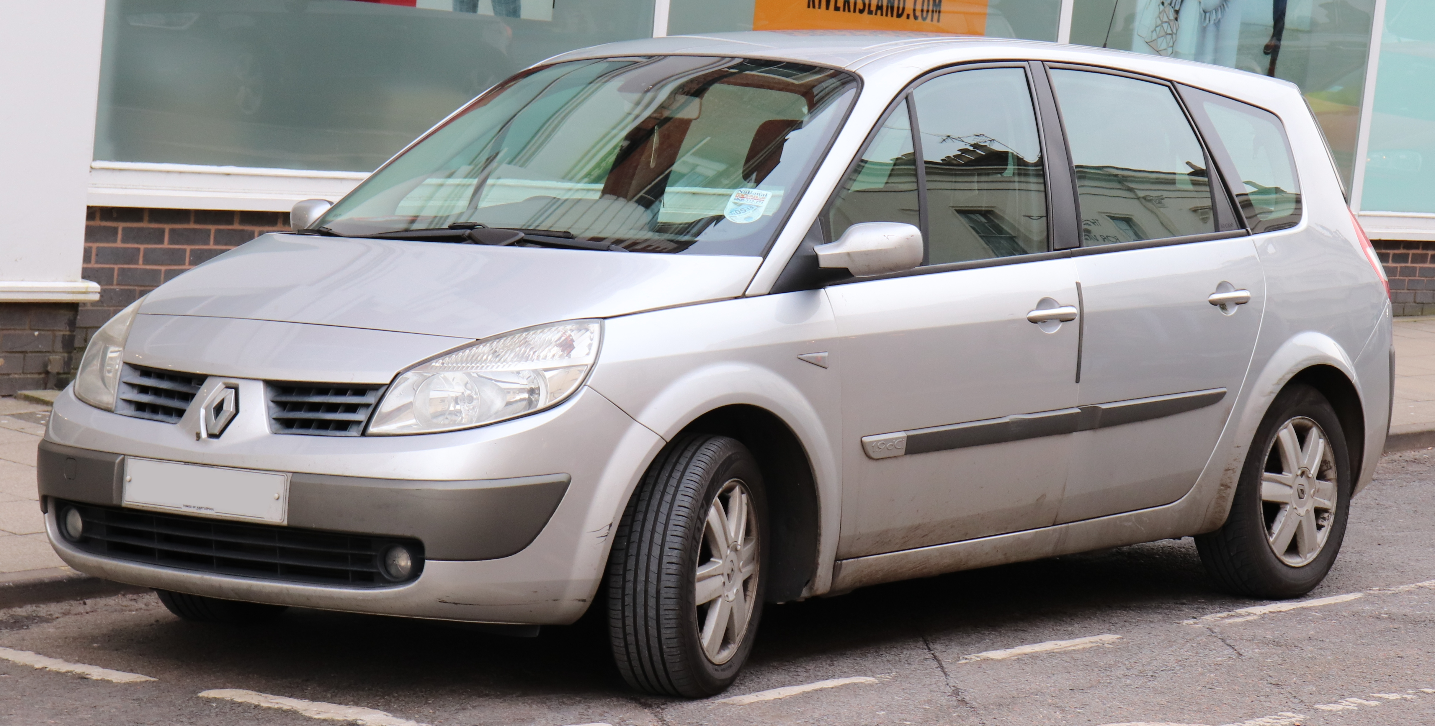 2006 Renault Scenic D-QUE DCi 130 E4 1.9 Front Taken in Leamington Spa